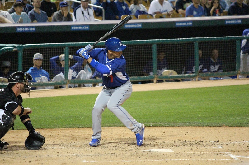 Dodgers infielder Alex Guerrero in a spring training game in 2014